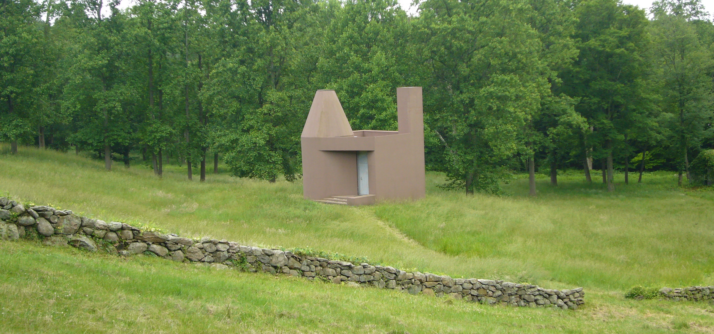 The Study at Philip Johnson's Glass House, New Canaan, CT USA.